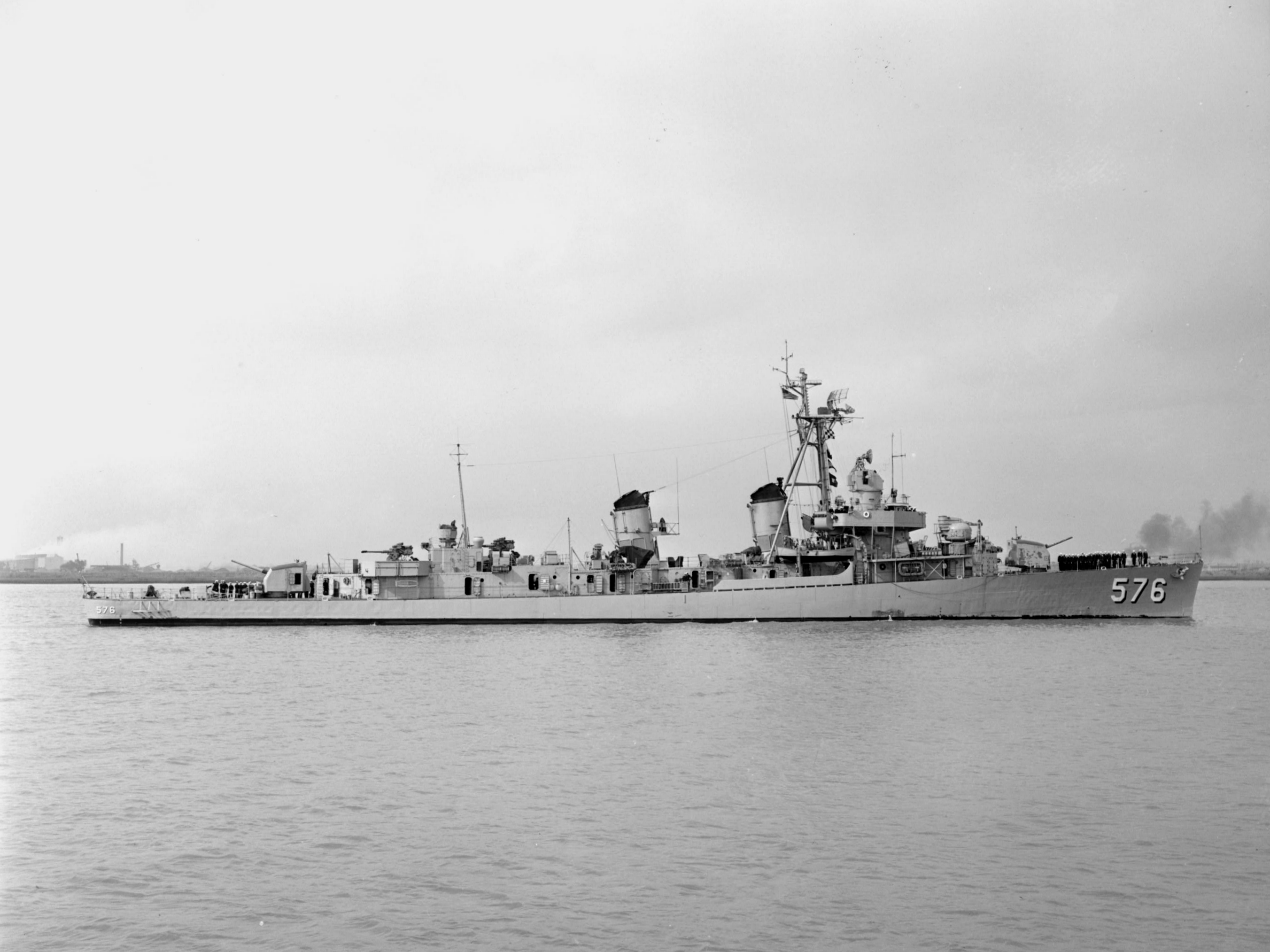 The U.S. Navy destroyer USS Murray (DDE-576) underway, circa in 1951. She was recommissioned at Charleston, South Carolina (USA), on 16 October 1951.